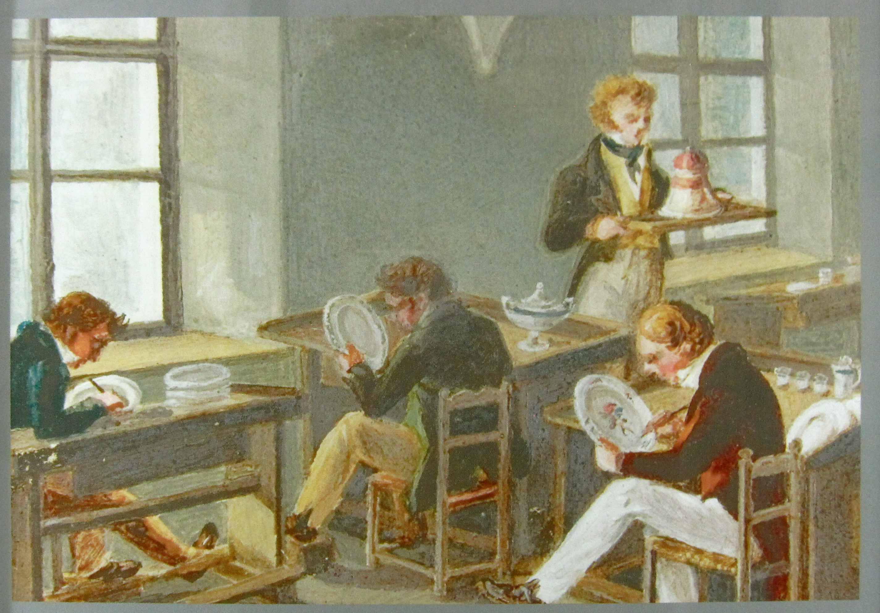 Sketch in oil showing the painters' workshop at the Imperial Porcelain Manufactory in Vienna, c. 1830. (Estate of the Imperial-Royal Porcelain Manufactory, MAK, Vienna.)